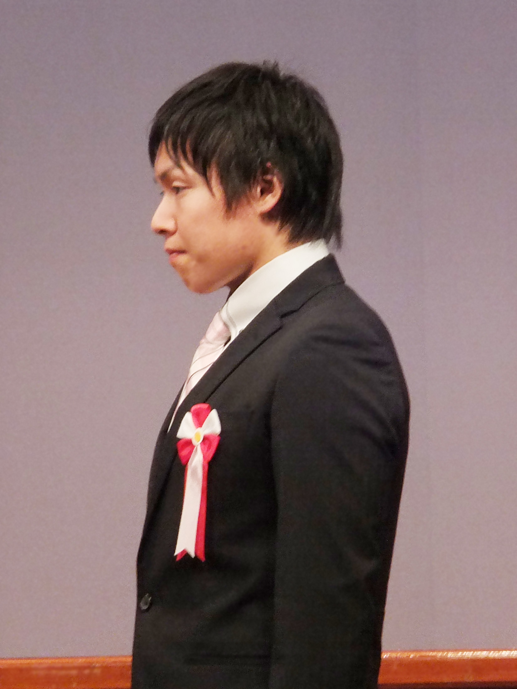 Yuya Horihata (堀畑 裕也 Horihata Yūya), at Toyokawa City's 50th anniversary celebration